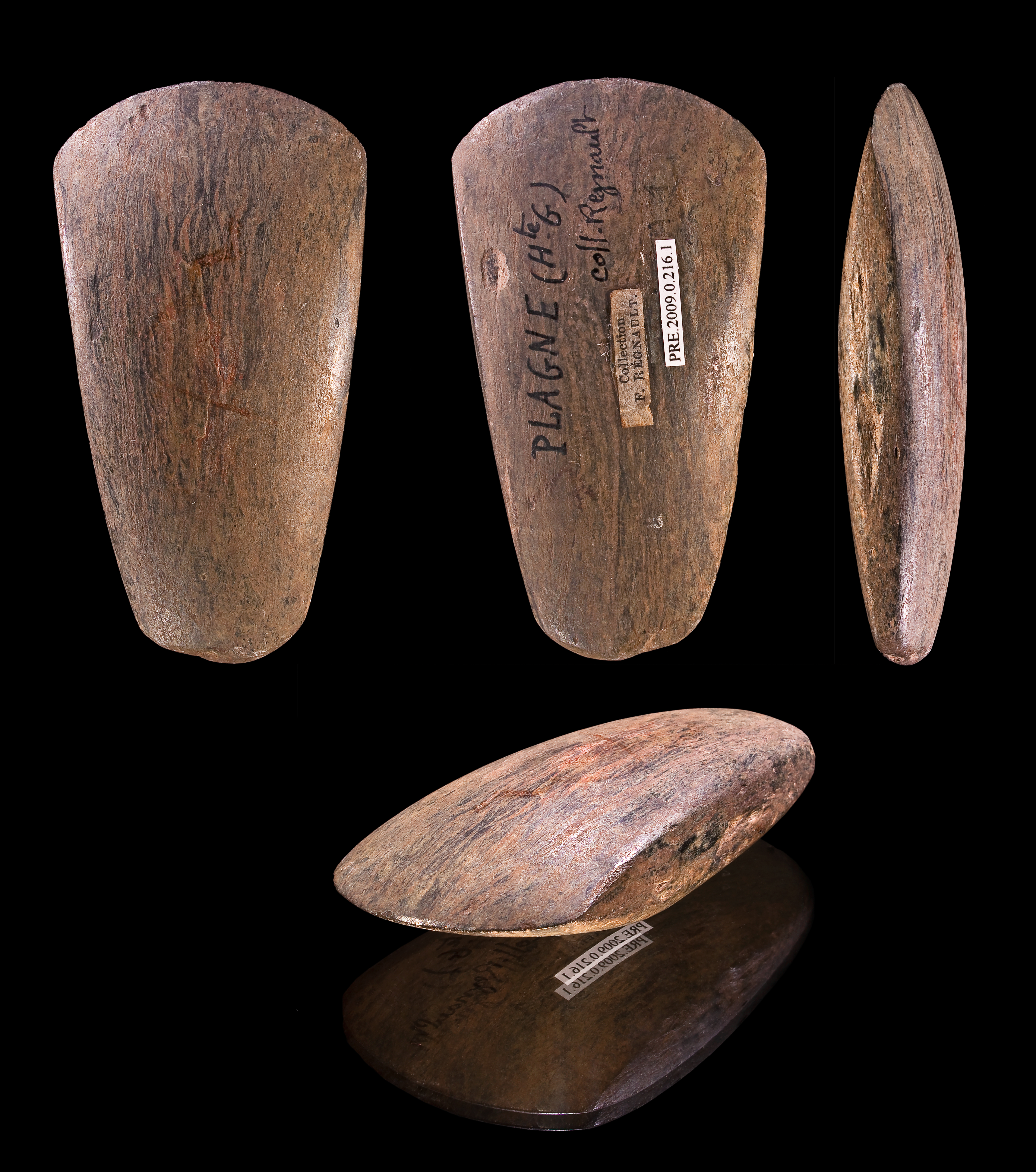 Polished axe Different views of the same specimen.